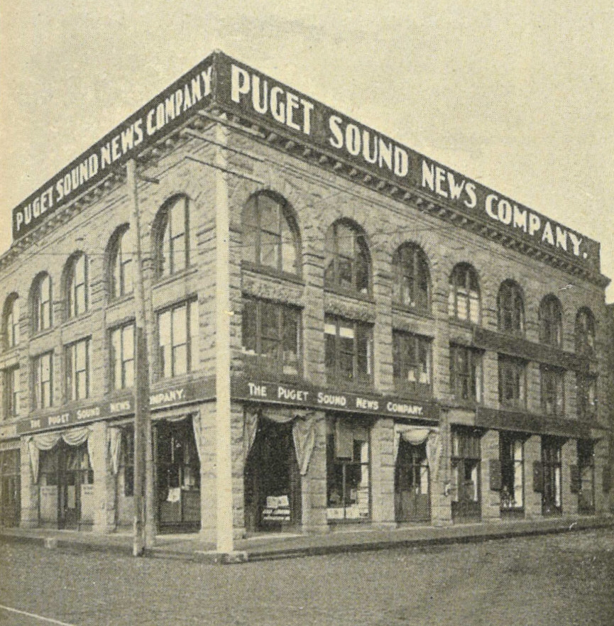 "Building of Puget Sound News Co.", from brochure Seattle and the Orient (1900). Not sure of location or of whether this building is still standing. The Puget Sound News Co. (founded 1894, part of the American News Company), which owned numerous small newspapers in the Pacific Northwest, moved several times in its history. According to Polk's Seattle City Directory 1899 (Polk's Seattle Directory Co., 1899), p. 797, the company was at the corner of Western Ave. and Columbia Street. I think, though I'm not sure, that the lower portion of this survives as part of the Journal Building, also known as Journal of Commerce Building / Daily Journal Building. See Summary for 83 Columbia ST / Parcel ID 7666202580, Seattle Department of Neighborhoods: they are clearly uncertain about the history of that building, what parts of it date from when, etc. Hope this picture helps sort some of it out.